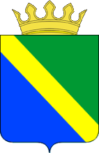 Tuapse rayon (Krasnodar krai), coat of arms